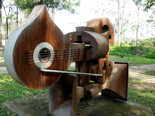 sa